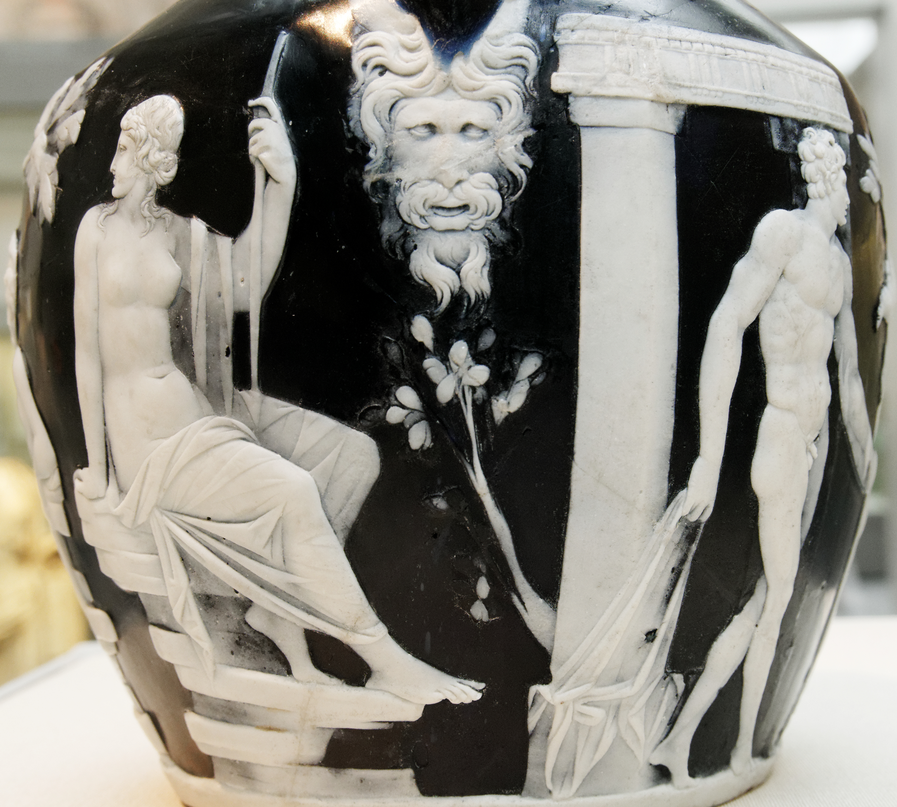 Detail: Junction of sides B & A of the Portland Vase. Cameo-glass, probably made in Italy ca. 5-25 AD.